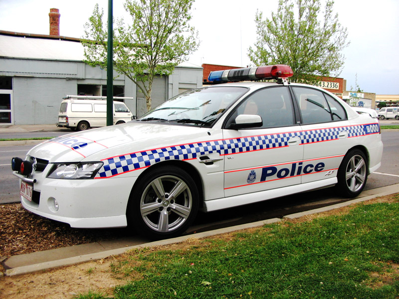 Victoria Police 2004 Holden VZ Commodore SS.